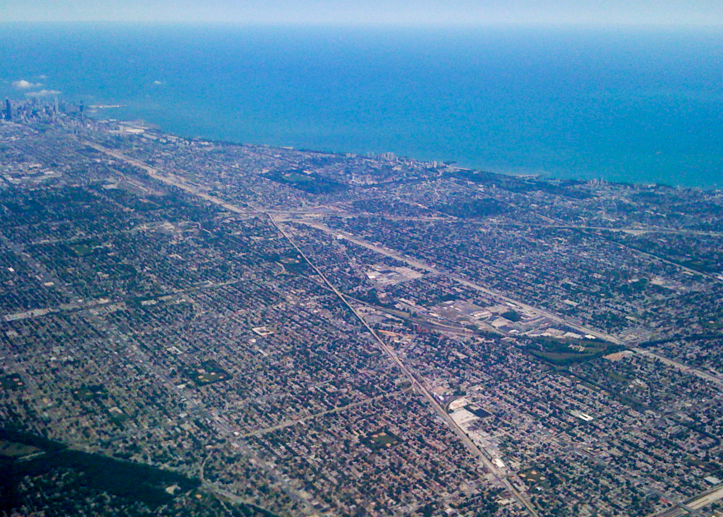 south to north view of the Chicago metropolitan area